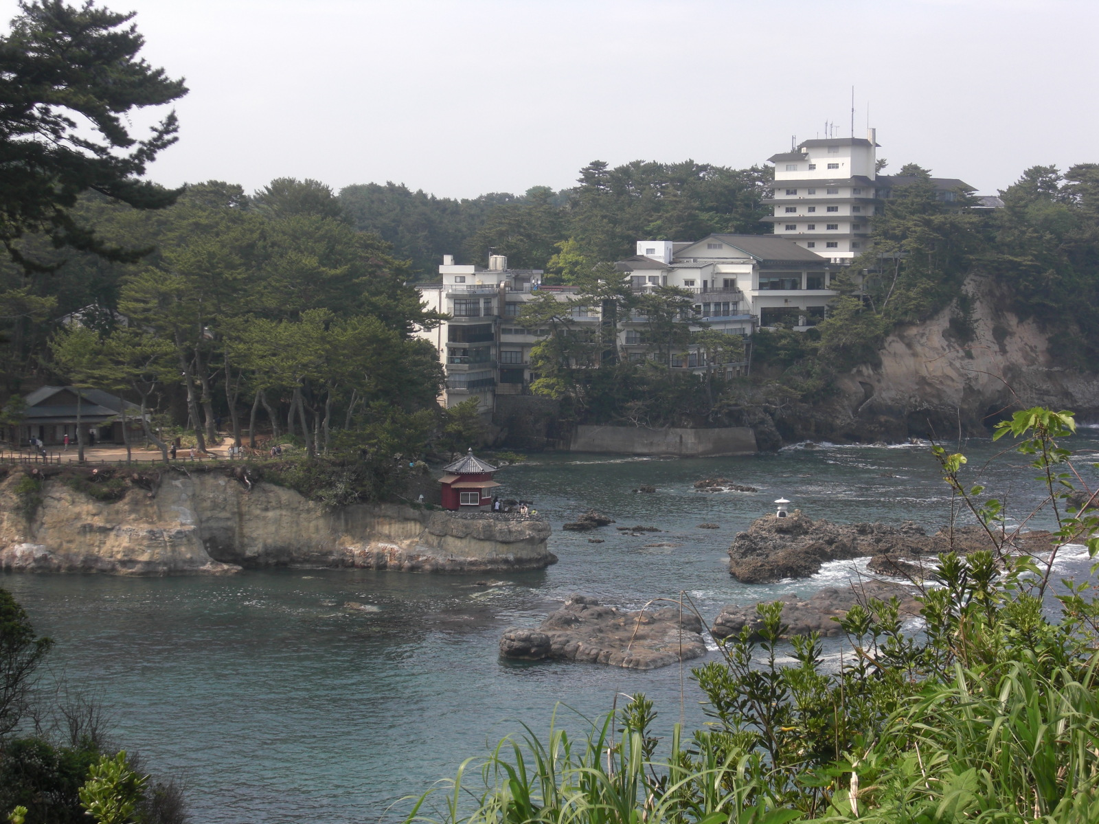 This is a landscape of Izura Beach in 2012.